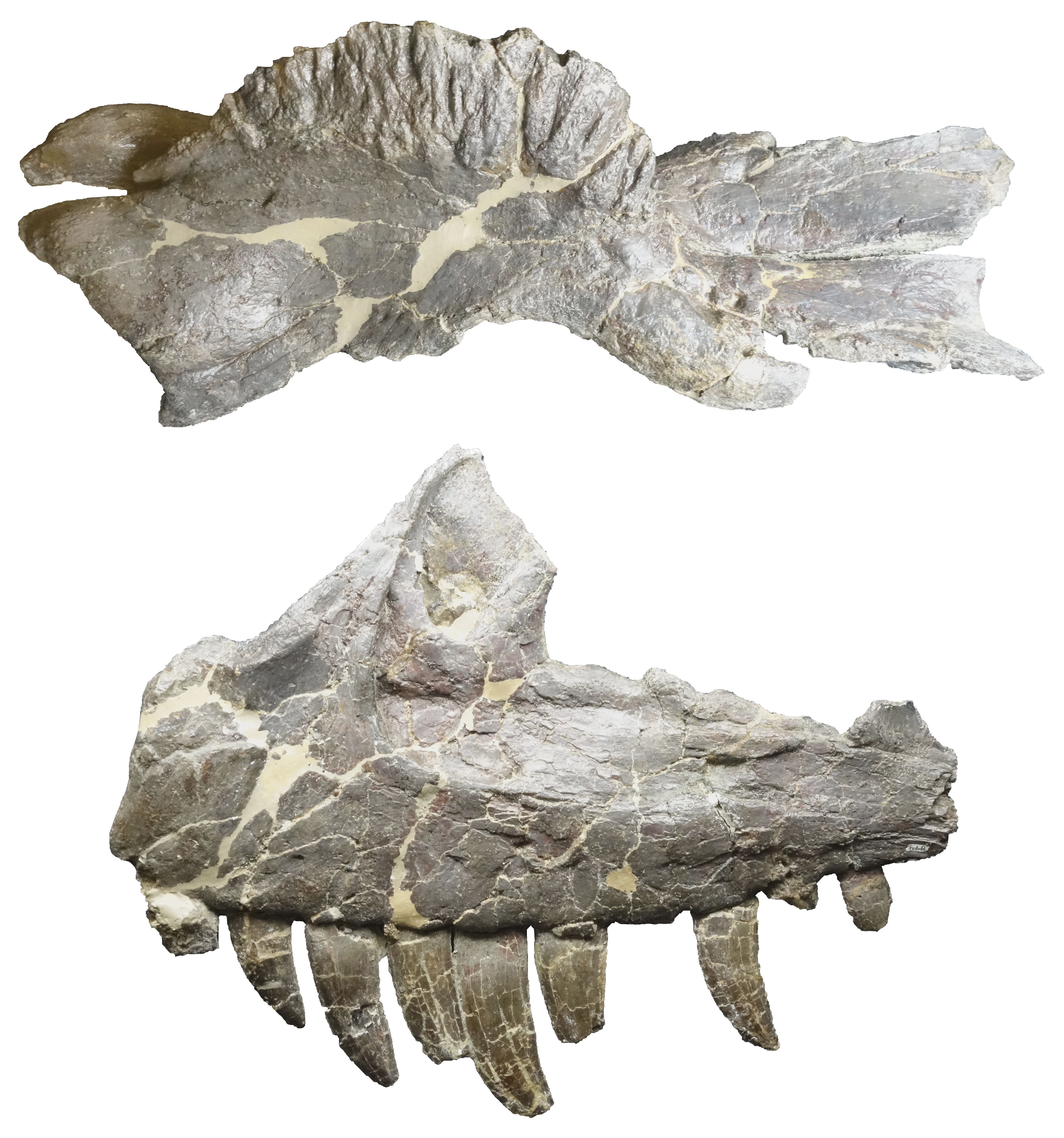 Fossils of Ceratosaurus in the Dinosaur Journey Museum, Fruita, showing characteristic features of the genus. Top: The co-ossificated nasal bones show the prominent nasal horn. Bottom: Left maxilla, showing the proportionally long teeth. The specimens were found at the Fruita Paleontological Area near the Dinosaur Journey museum, and have been referred to Ceratosaurus magnicornis.